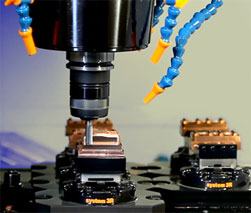 Perfit Mould